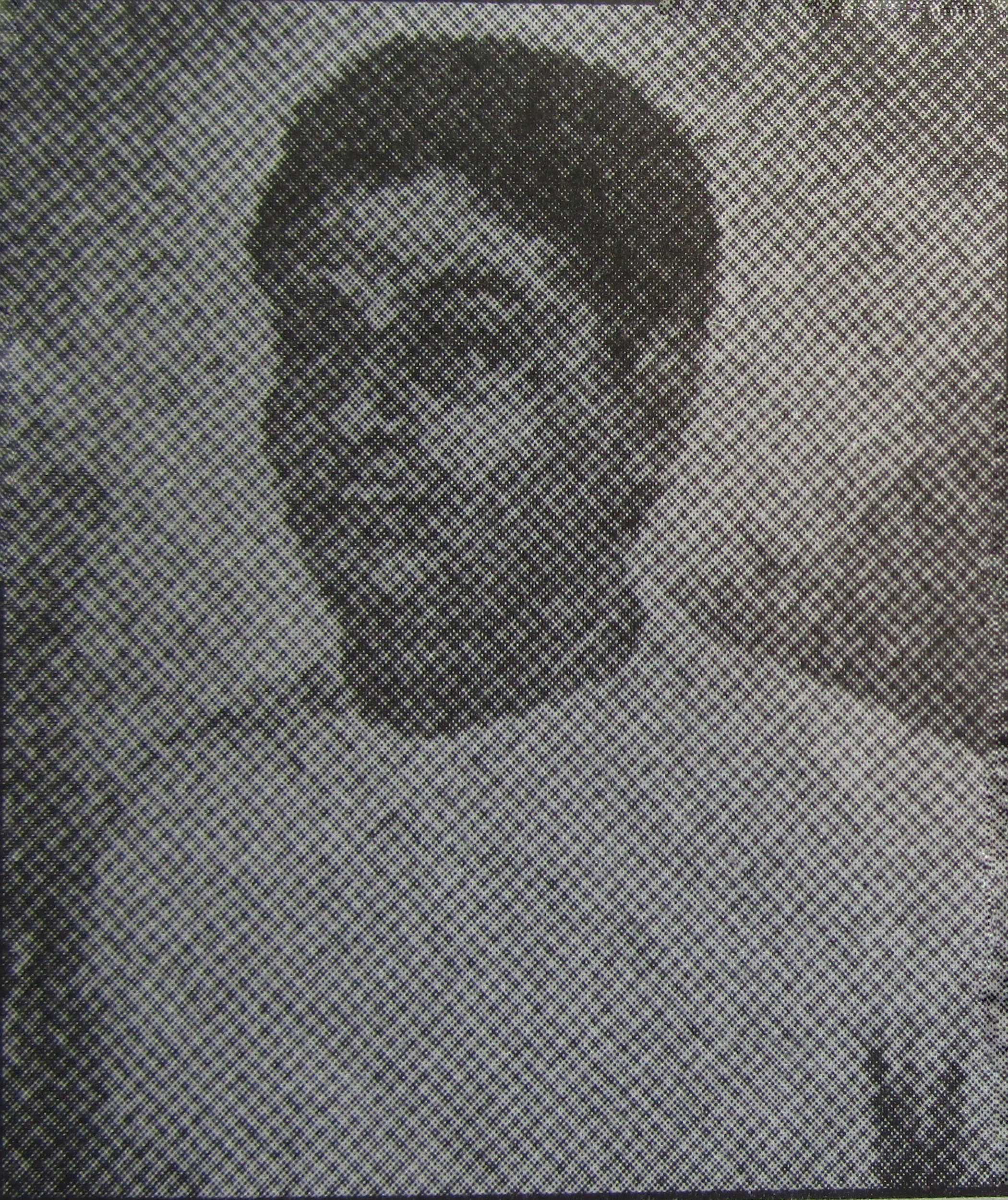 Mahendranath Roy